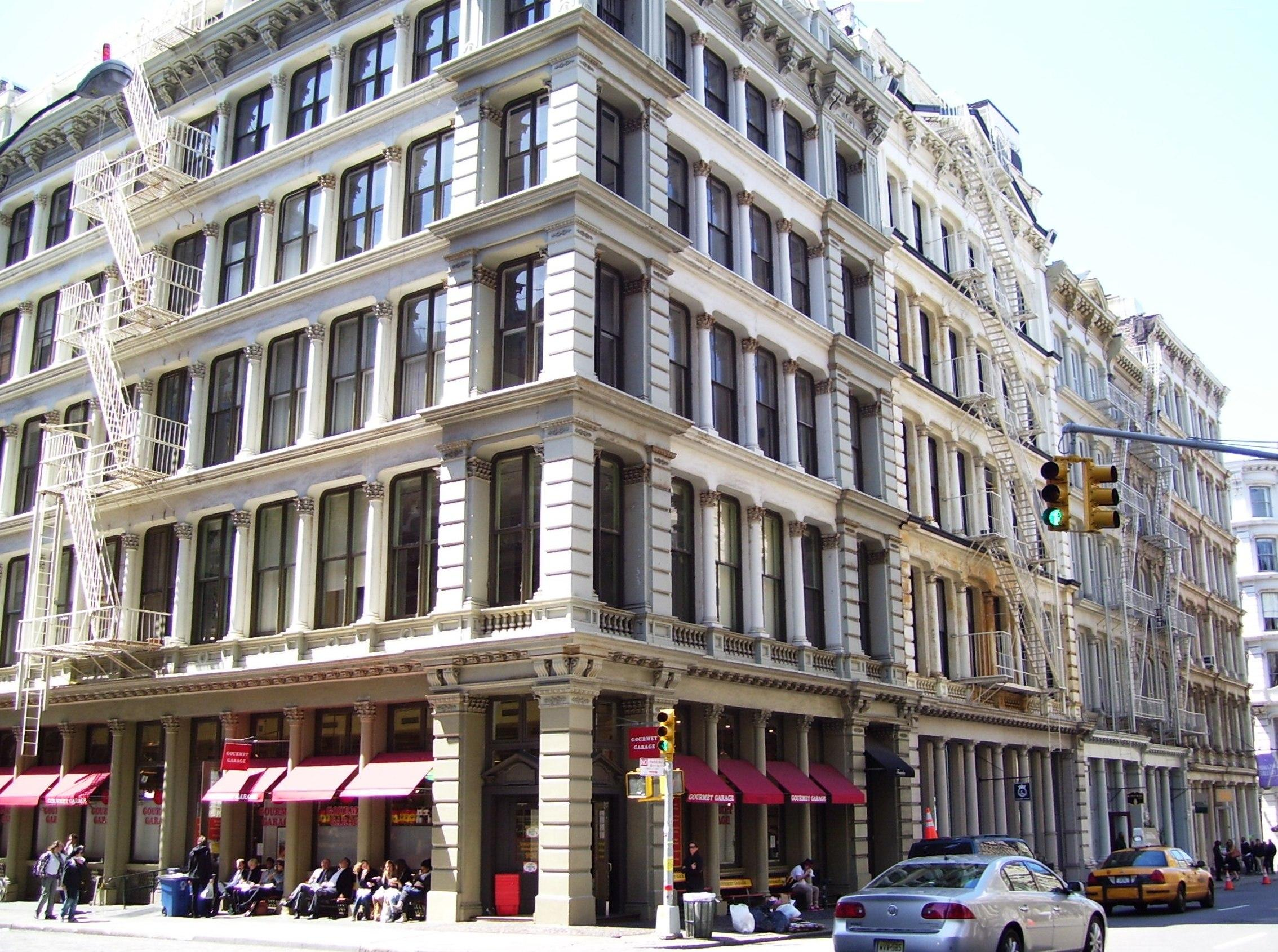 453-467 Broome Street between Mercer and Greene Streets in the SoHo neighborhood of Manhattan, New York City, within the Soho-Cast Iron Historic District: 453-455 Broome Street - also known as 57-59 Mercer, originally the Hitchcock Silk Building, built 1872-73, designed by Griffith Thomas in the Corinthian style 457-459 Broomer Street - warehouse, built 1871, designed by Griffith Thomas 461 Broome Street - store, built 1861, designed by Griffith Thomas in the Tuscan style 463 Broome Street - store, built 1867, designed by Henry Fernbach 465-467 Broome Street - also known as 54 Greene Street, warehouse, built 1873, designed by Isaac F. Duckworth in the Tuscan style (Sources: NYCLPC Soho - Cast Iron Historic District Designation Report and AIA Guide to NYC (4th ed.))